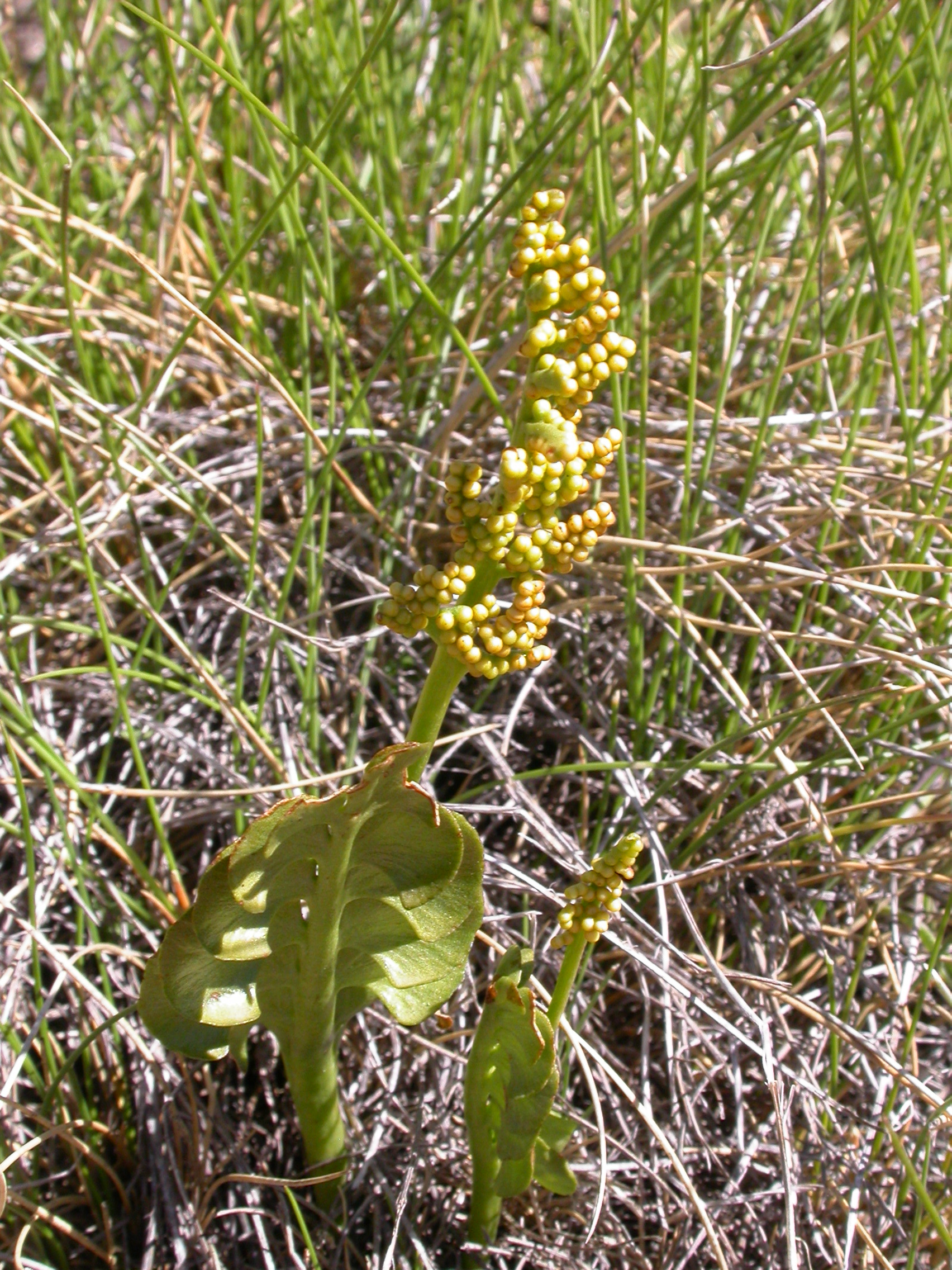 Botrychium lunaria Zermatt, Riffelberg (Kanton Wallis, Switzerland), 2500 m Author: Barbara Studer – own photograph Date: 2.08.06